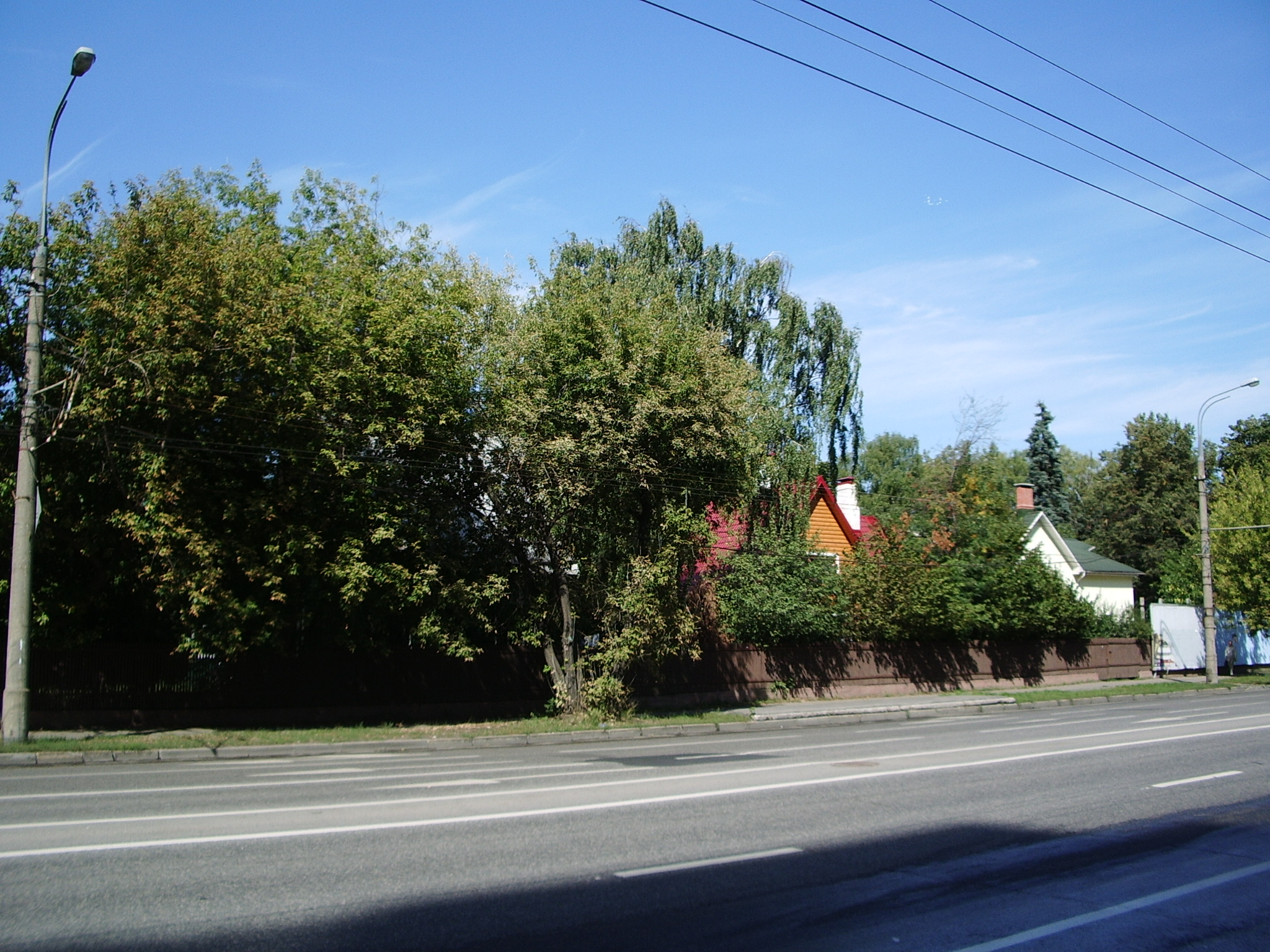 Alabyana street 8. Sokol settlement in Moscow.